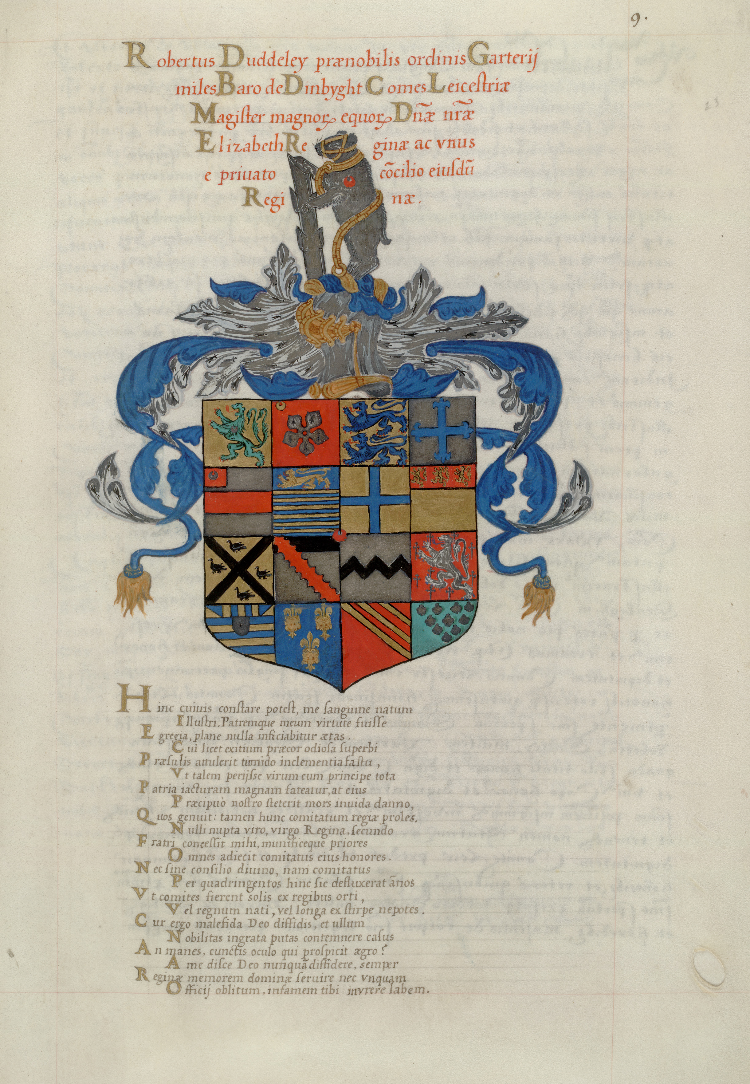 Arms of Robert Dudley, Earl of Leicester, with verses in a calligraphic script copied by John de Beauchesne. From Heroica Eulogia by William Bowers, 1567. (Huntington Library, HM 160, f. 11).